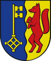 Coat of arms of the German municipality of Wulkenzin.